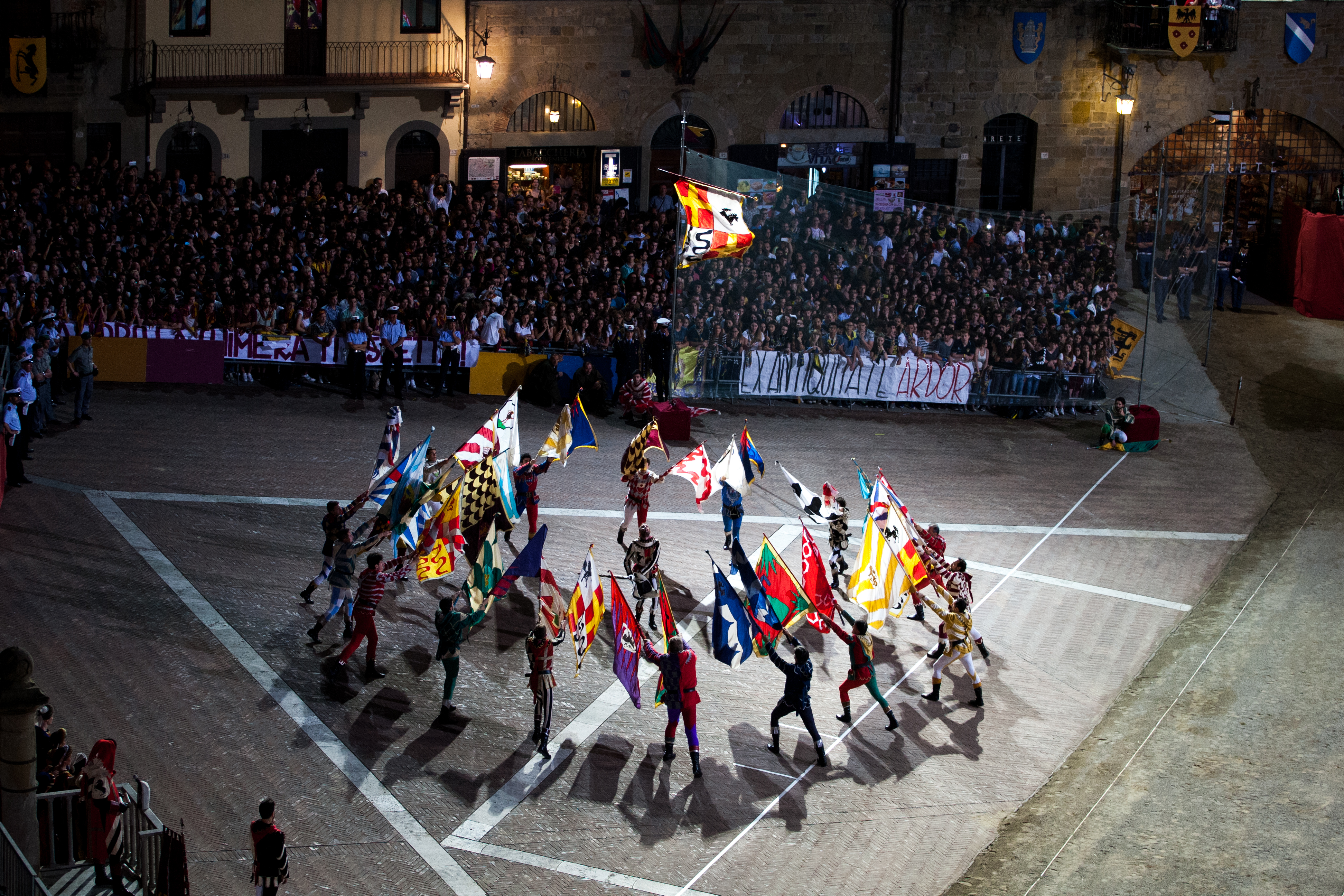 flag wavers of Arezzo